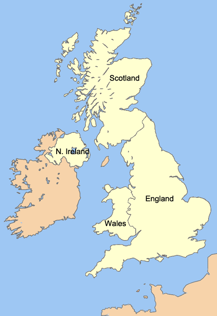 Countries of the United Kingdom